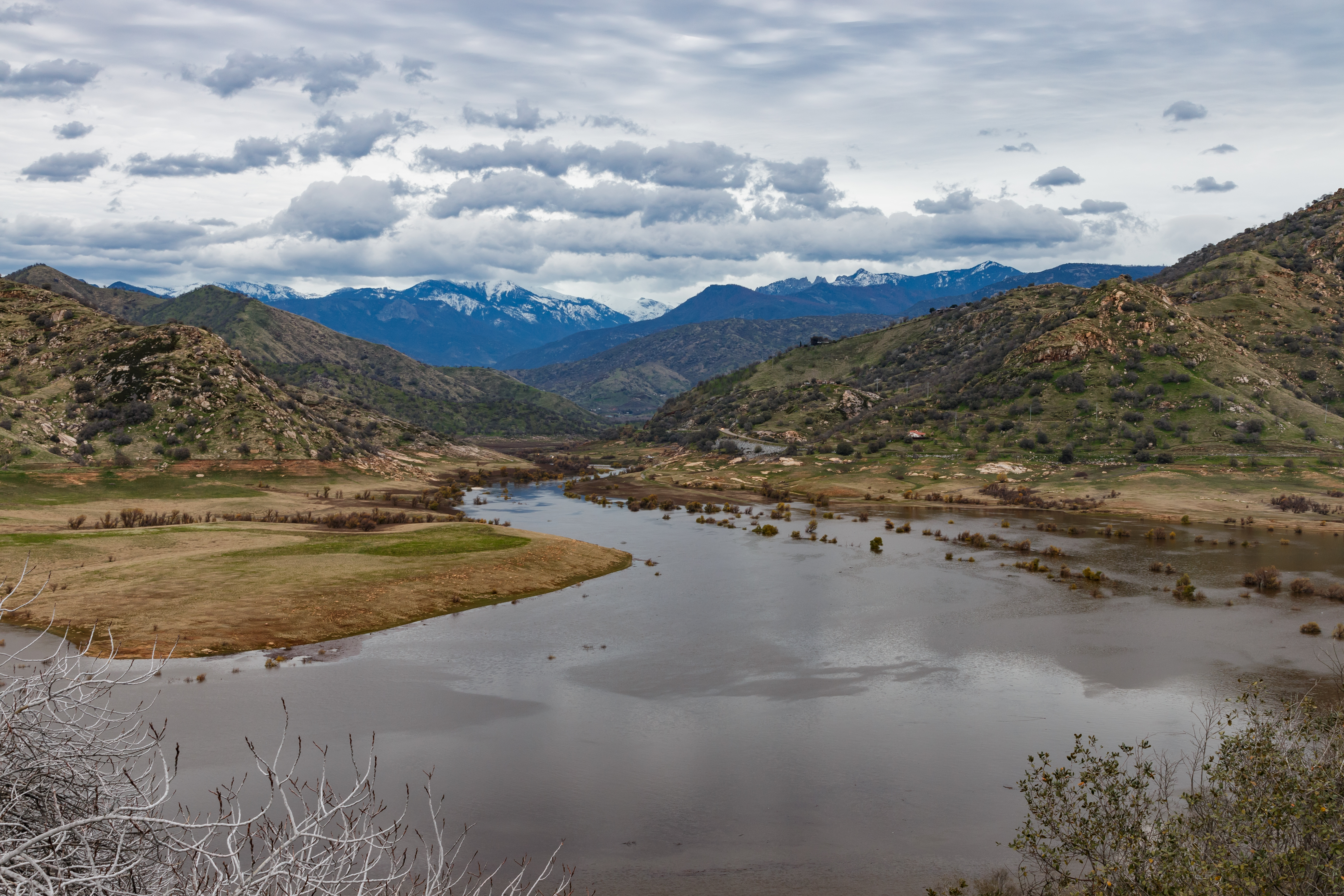 "Where Kaweah River meets Lake Kaweah looking north. The Lake is rising quite rapidly."